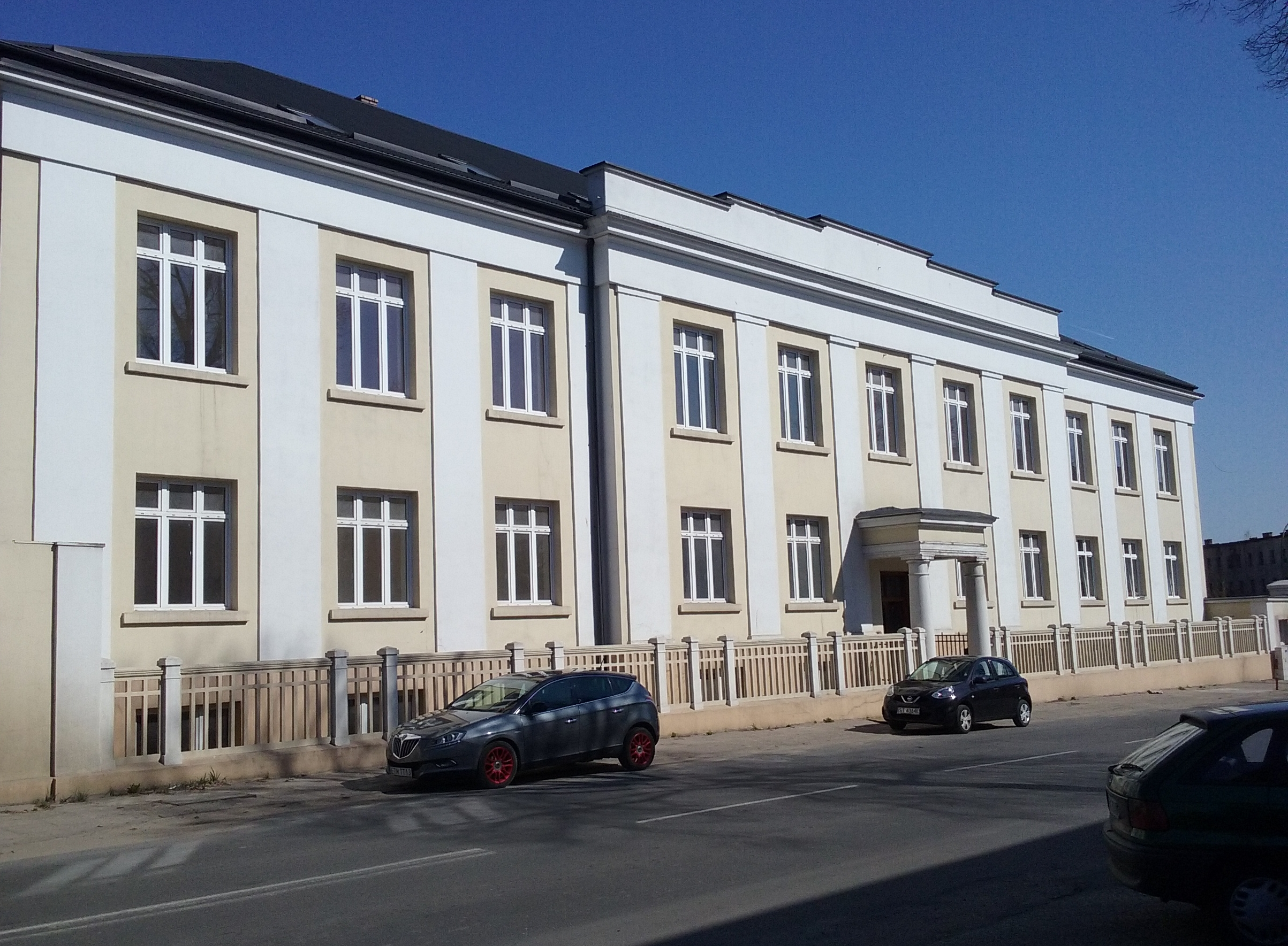 Artificial Silk Company of Tomaszow (est. 1911), after II World War – Wistom. Office building